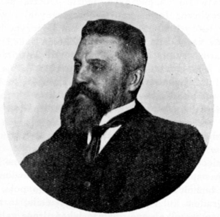 Vladimir Lindeman